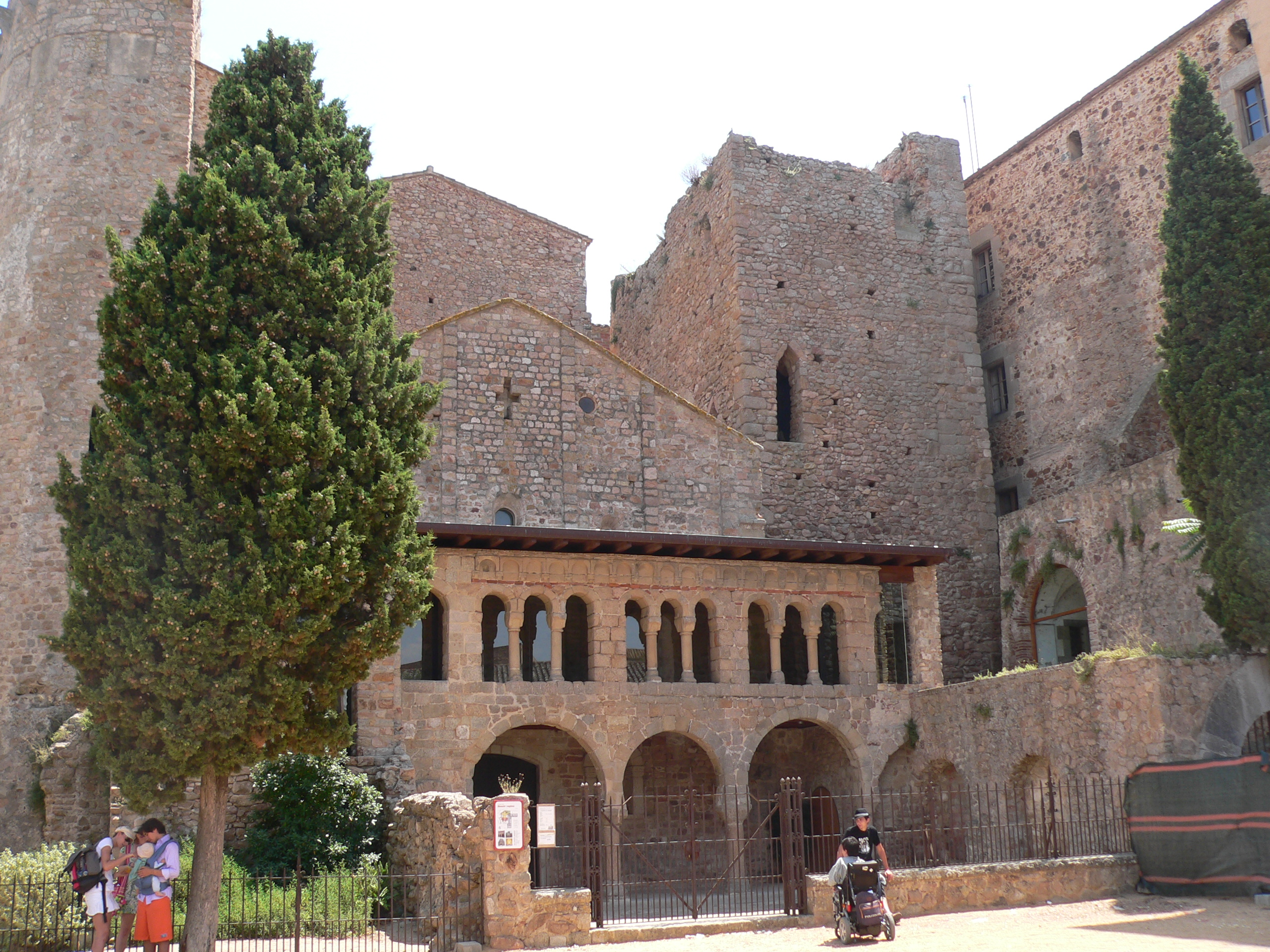 Monesterio de Sant Feliu de Guíxols. Fachada de la Porta Ferrada. Verano 2008.